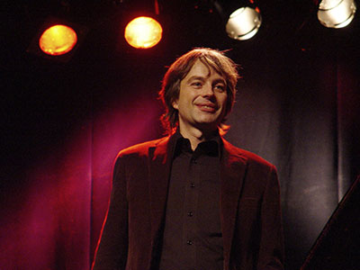 Jan Lundgren in Aarhus